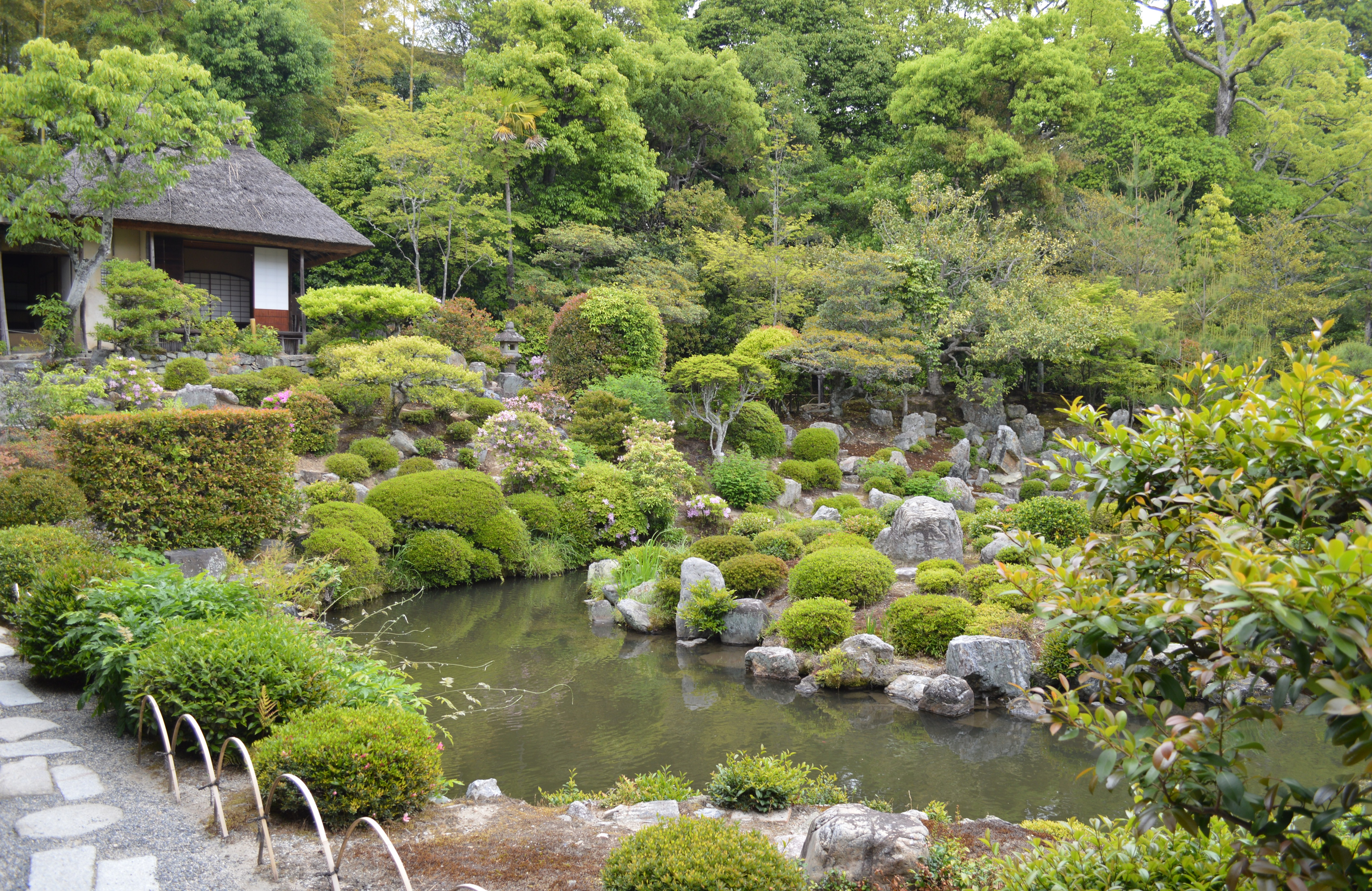 Tōji-in, the Seirentei (清漣亭)